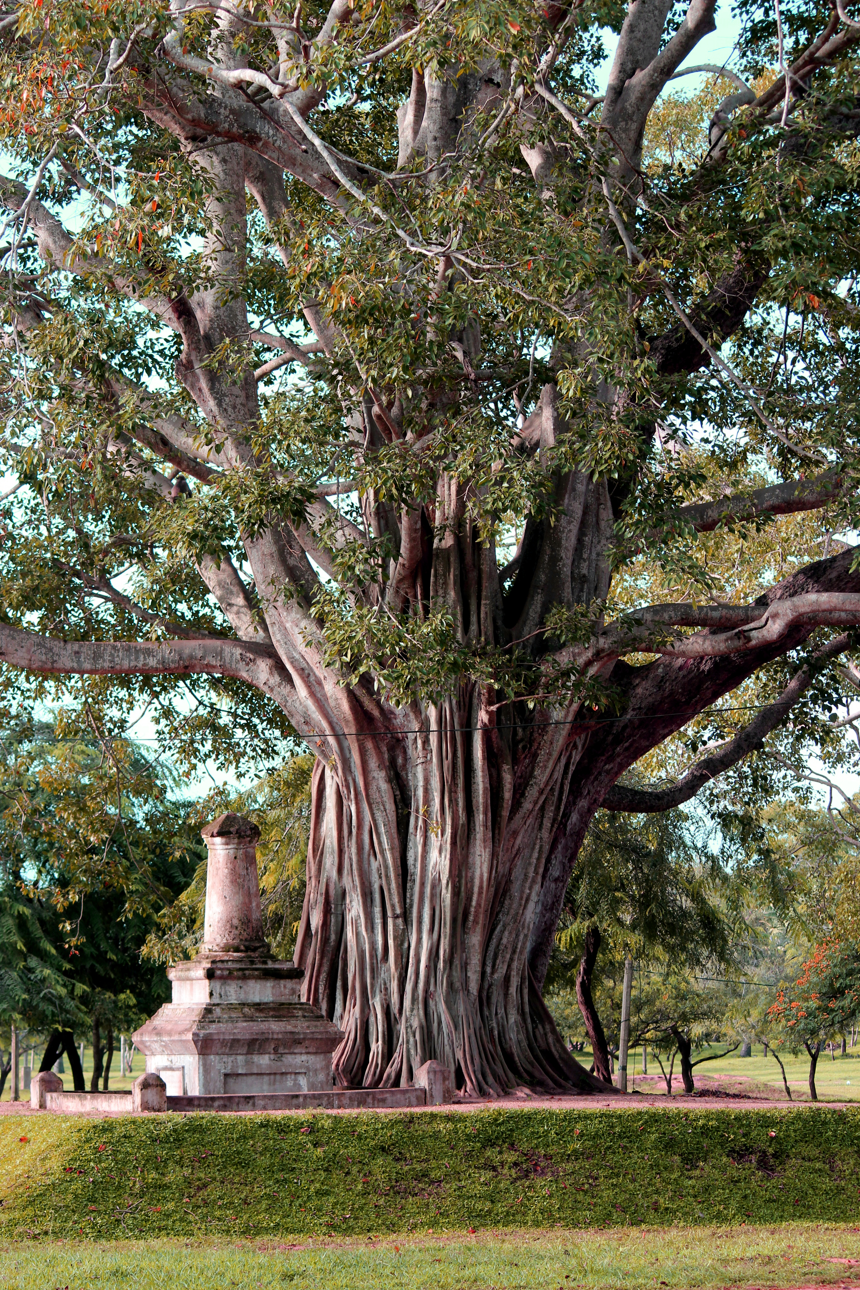 old Bodhi Tree (Anuradhapura)